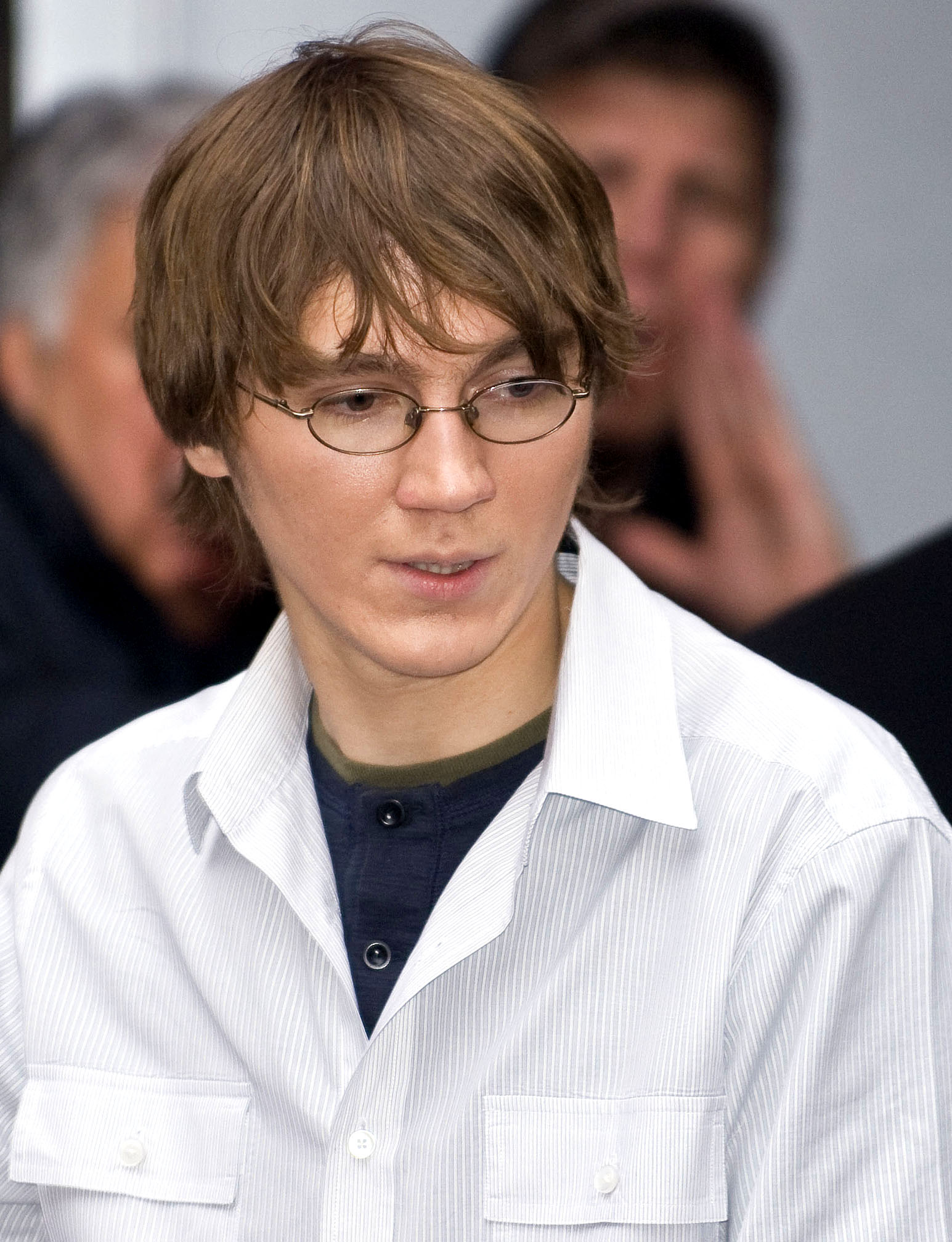 Paul Dano, Leaving the press conference of "There will be blood" at the Hyatt Hotel, Potsdamer Platz, Berlin